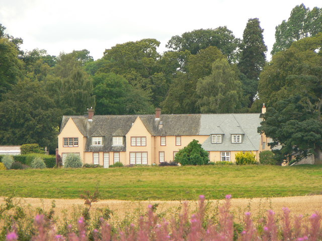 Ladykirk House near Norham This is one of a series of large estates which line the Northern (Scottish) side of the River Tweed. It was rebuilt in the 1960's.